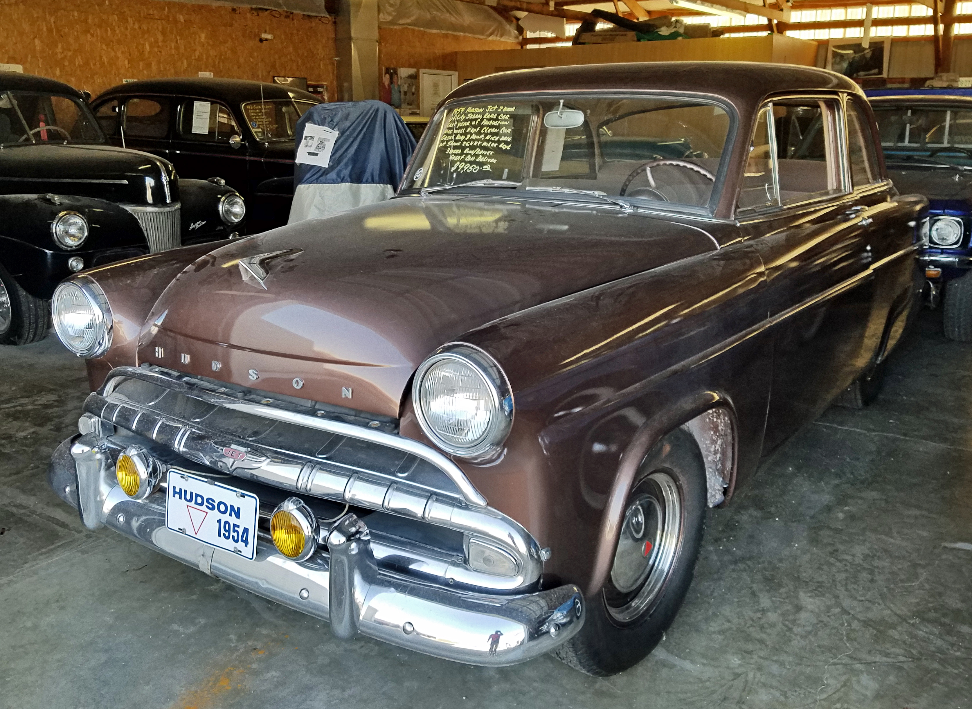 A 1954 Hudson Jet 2-Door Utility Sedan